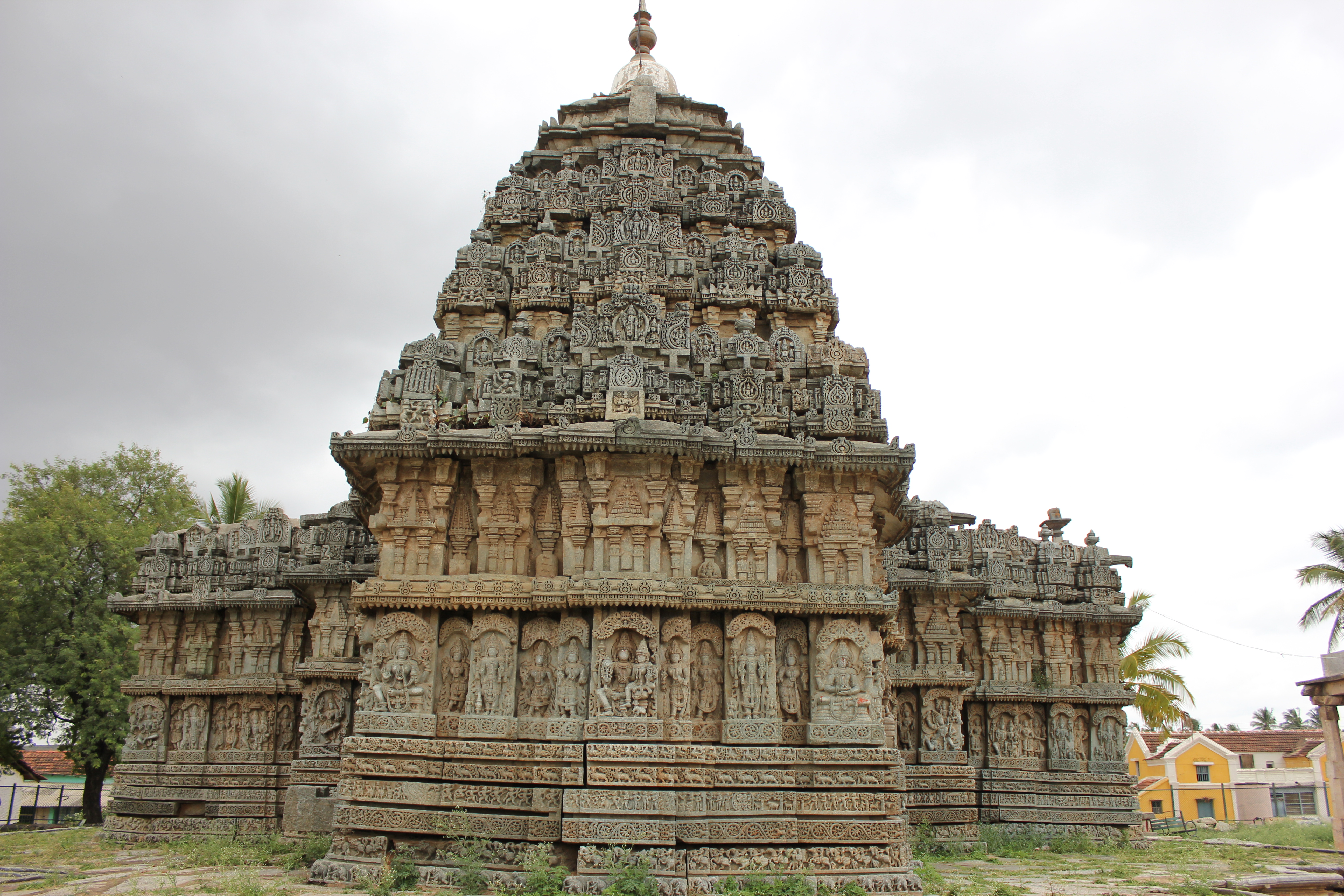 This photograph was taken by me at the Lakshminarasimha temple built in 1250 A.D. in Javagal, Hassan district, Karnataka state, India. The temple was built during the rule of Hoysala Empire King Vira Someshwara.